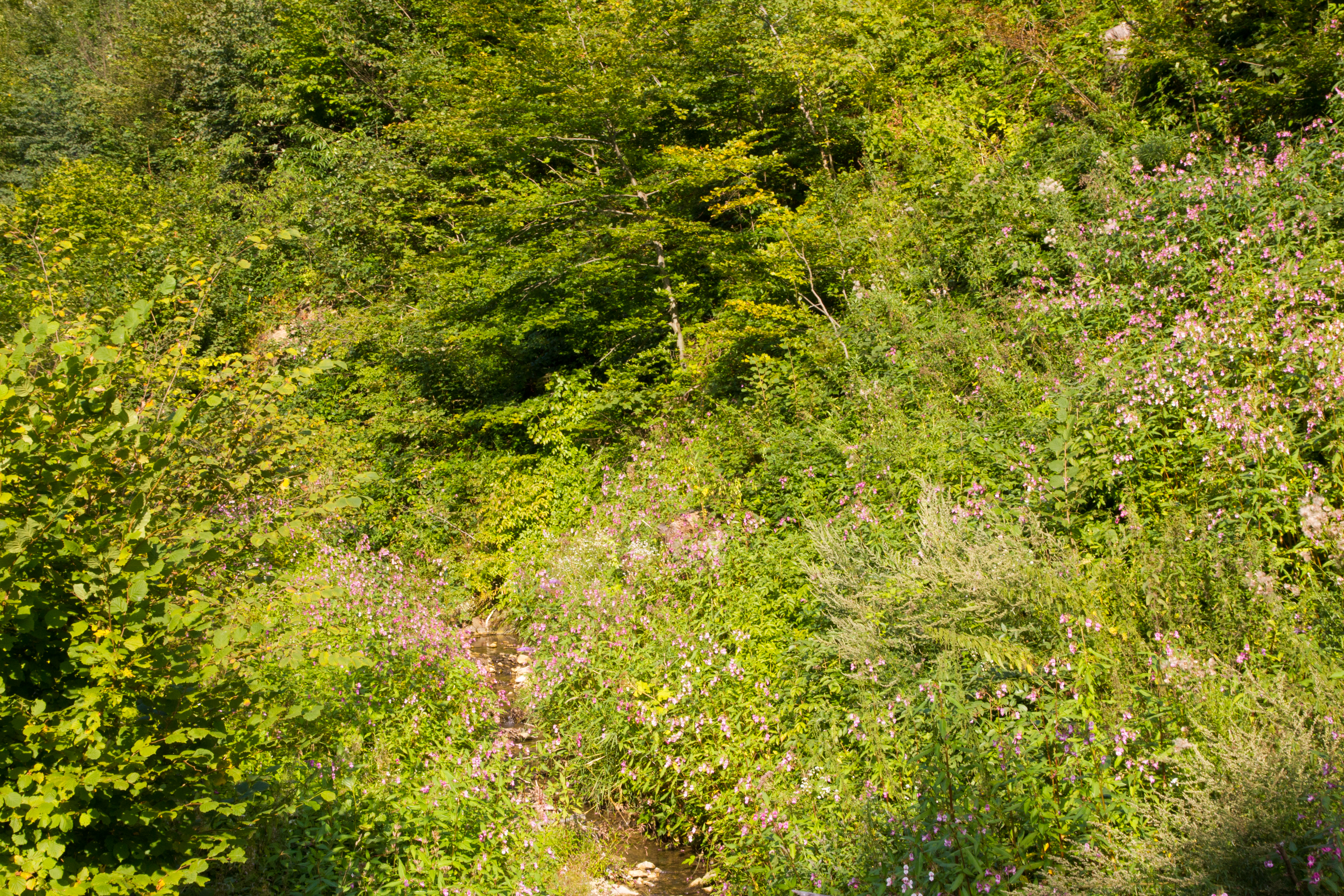 Vegatation and the stream Hainbach near the Stifter Monument.